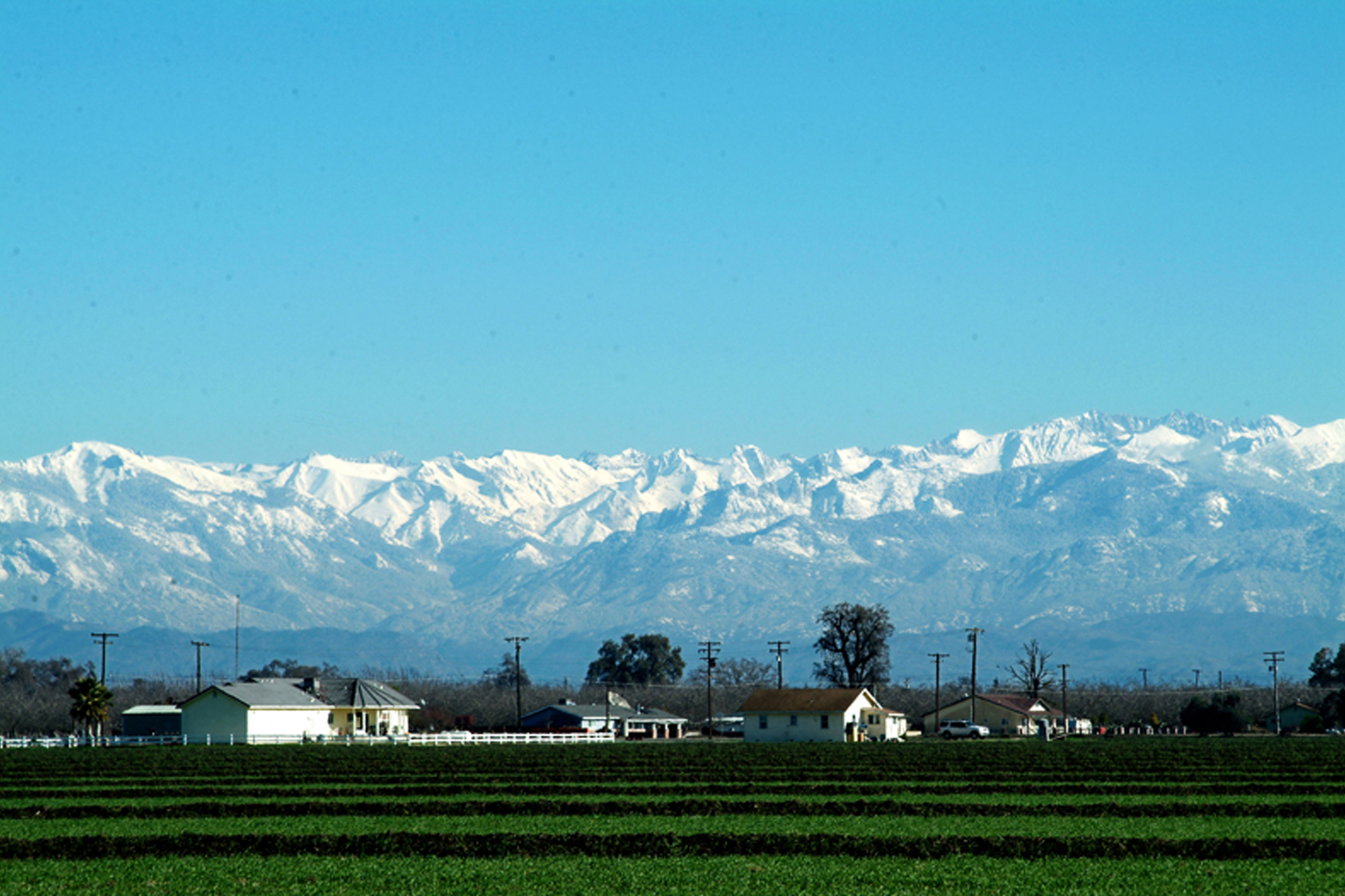 Sierra Nevada mountains from Tulare (Tulare Chamber)